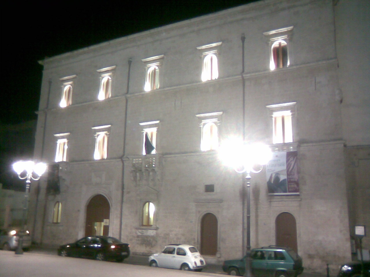 Palazzo_Granafei-Nervegna (photo taken by camera phone in the night)